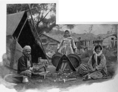 A Gipsy camp near Constantinople.